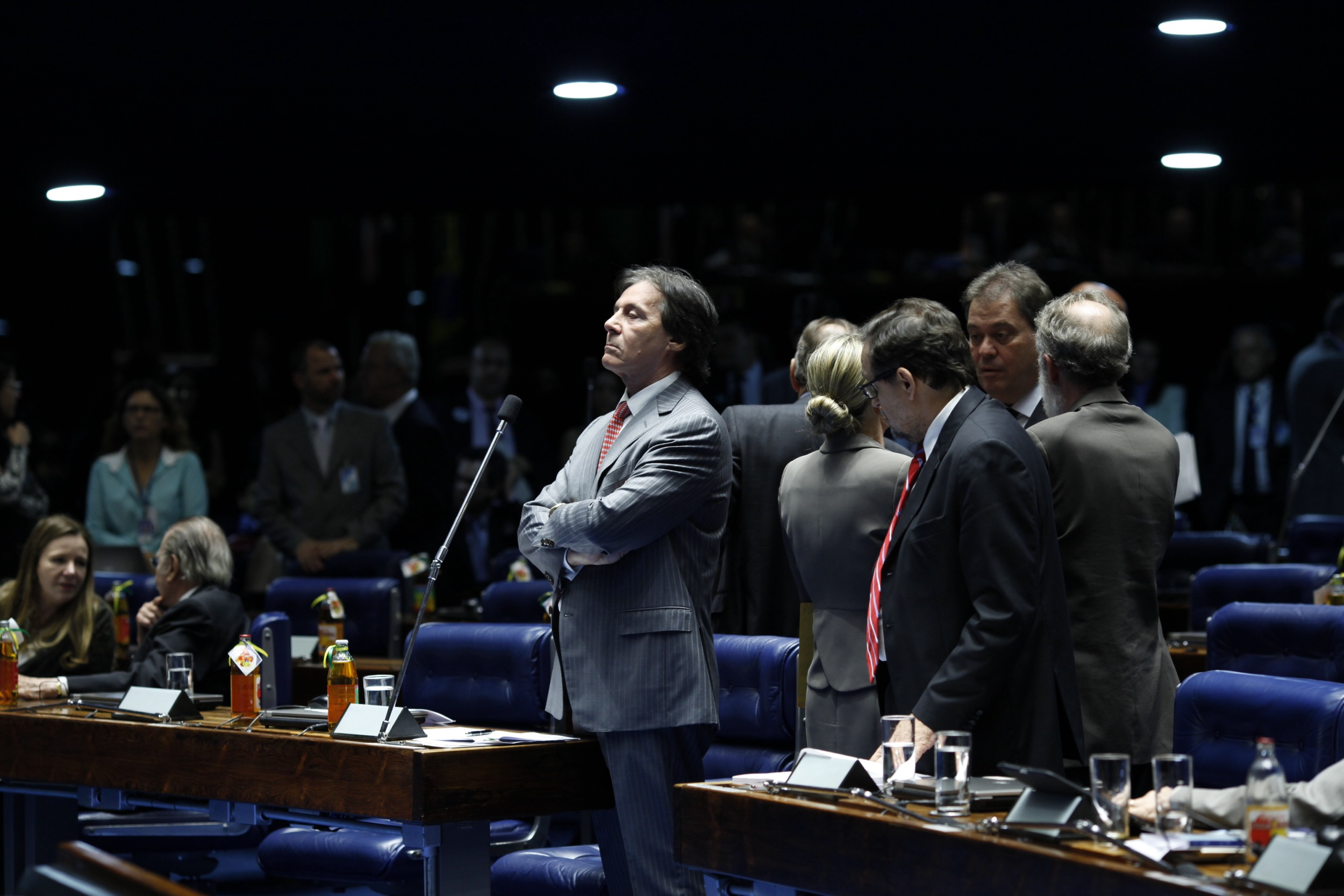 Eunício Oliveira Senator from Ceará